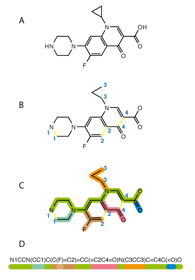 deriving the SMILES representation of a chemical molecule, Shown example: ciprofloxacin, a fluoroquinolone antibiotic.